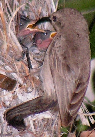 Female of Palestine Sunbird. The photo was taken in northern Israel, at Golan Hights.